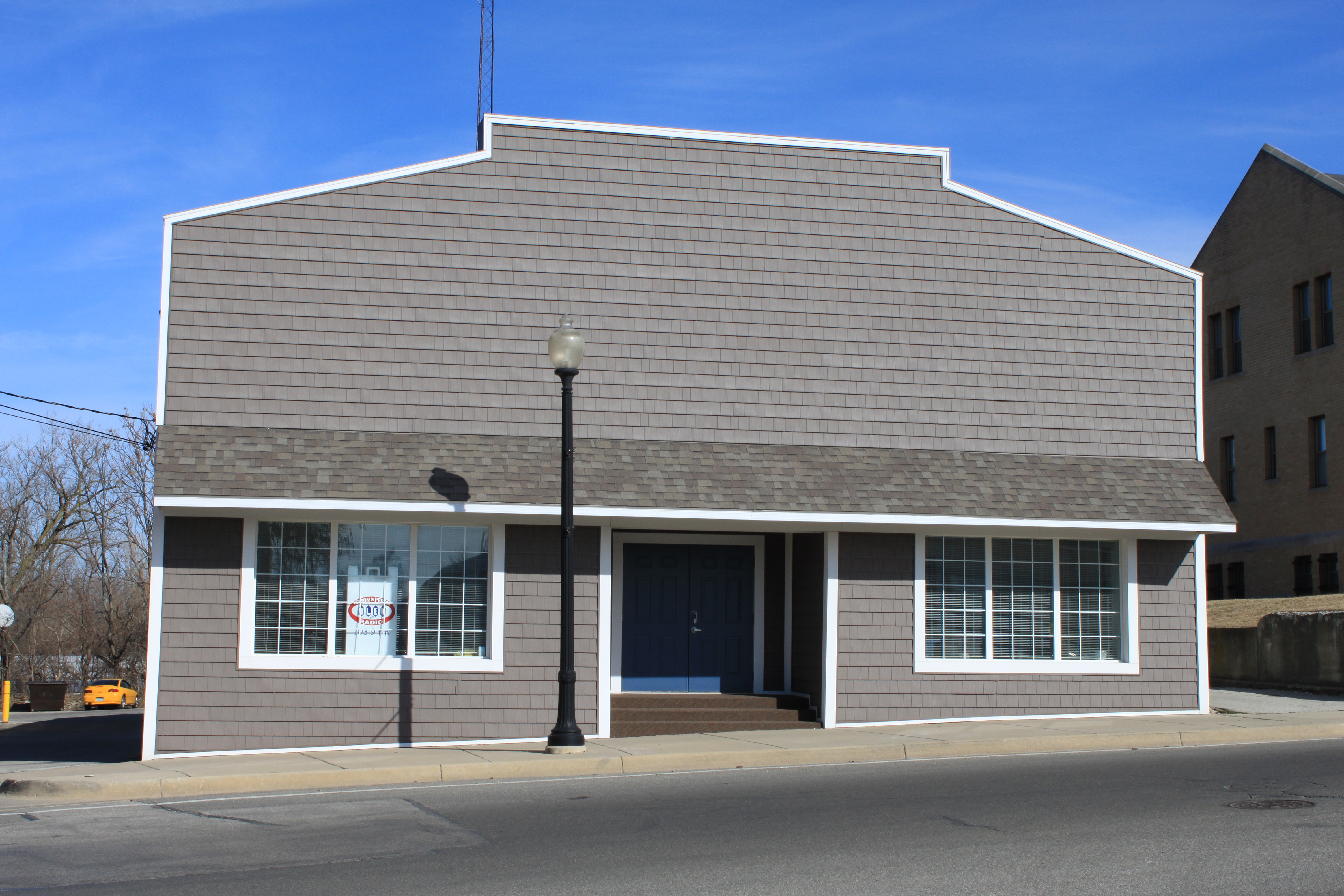 Radio station WLEN FM studios, 242 West Maumee Street, Adrian, Michigan